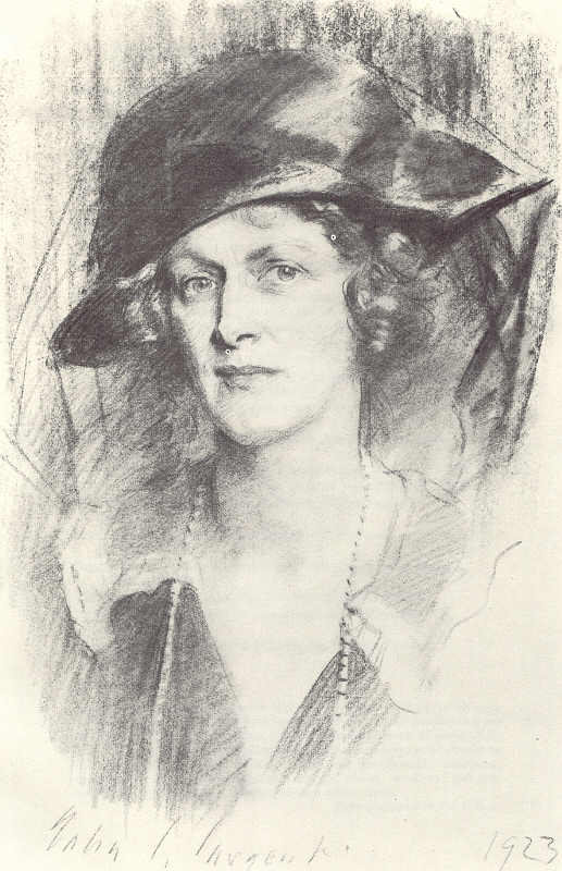 Nancy Astor, Viscountess Astor